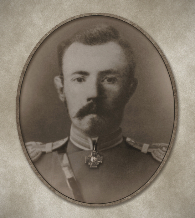 Tarapygin, Pyotr Ivanovich